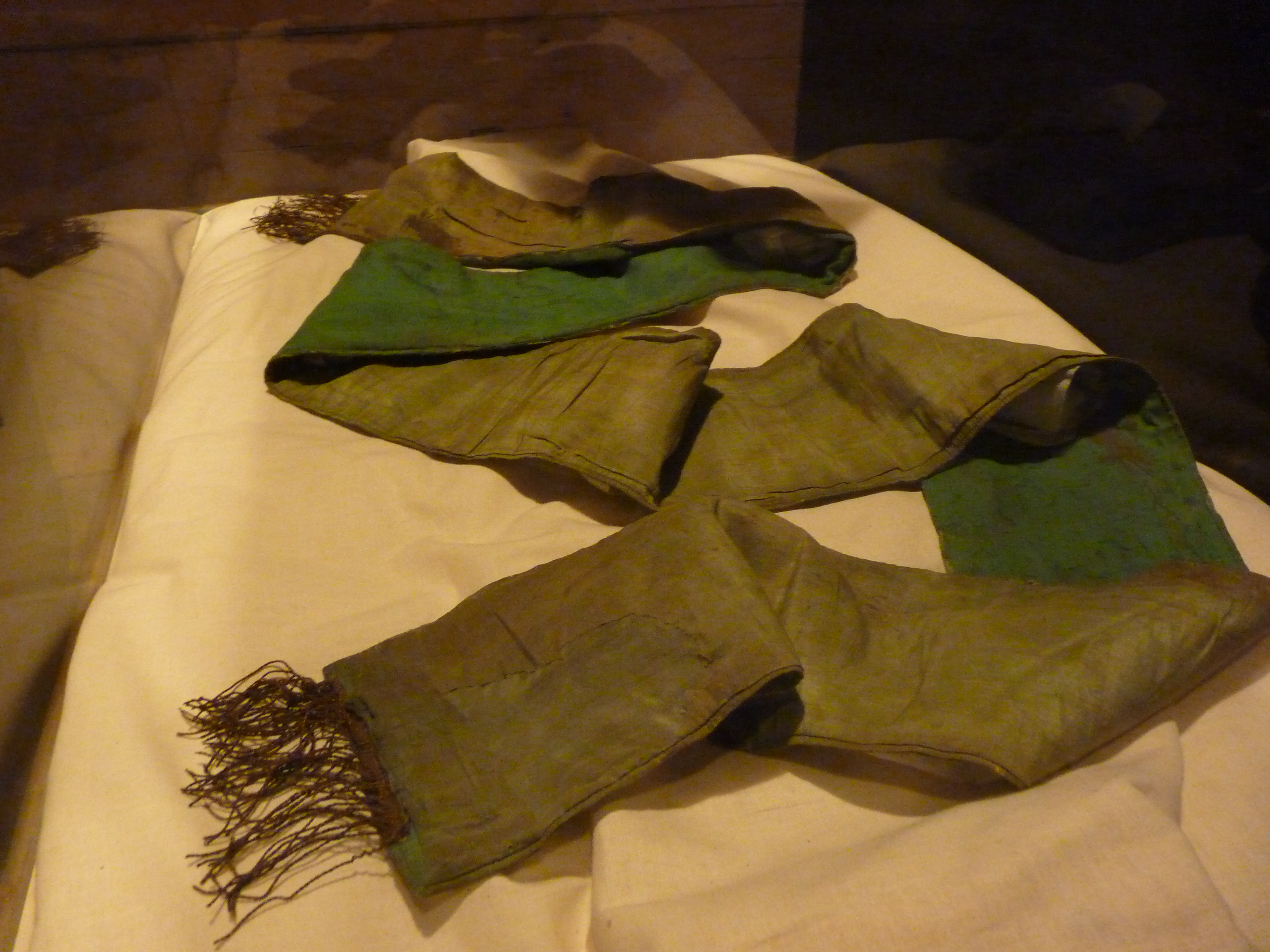 Ned Kelly's green shash, awarded to him for bravery when he saved a young boy from drowning. He wore the sash under his armour in the final seige at Glenrown, His blood stains still remain on the sash.